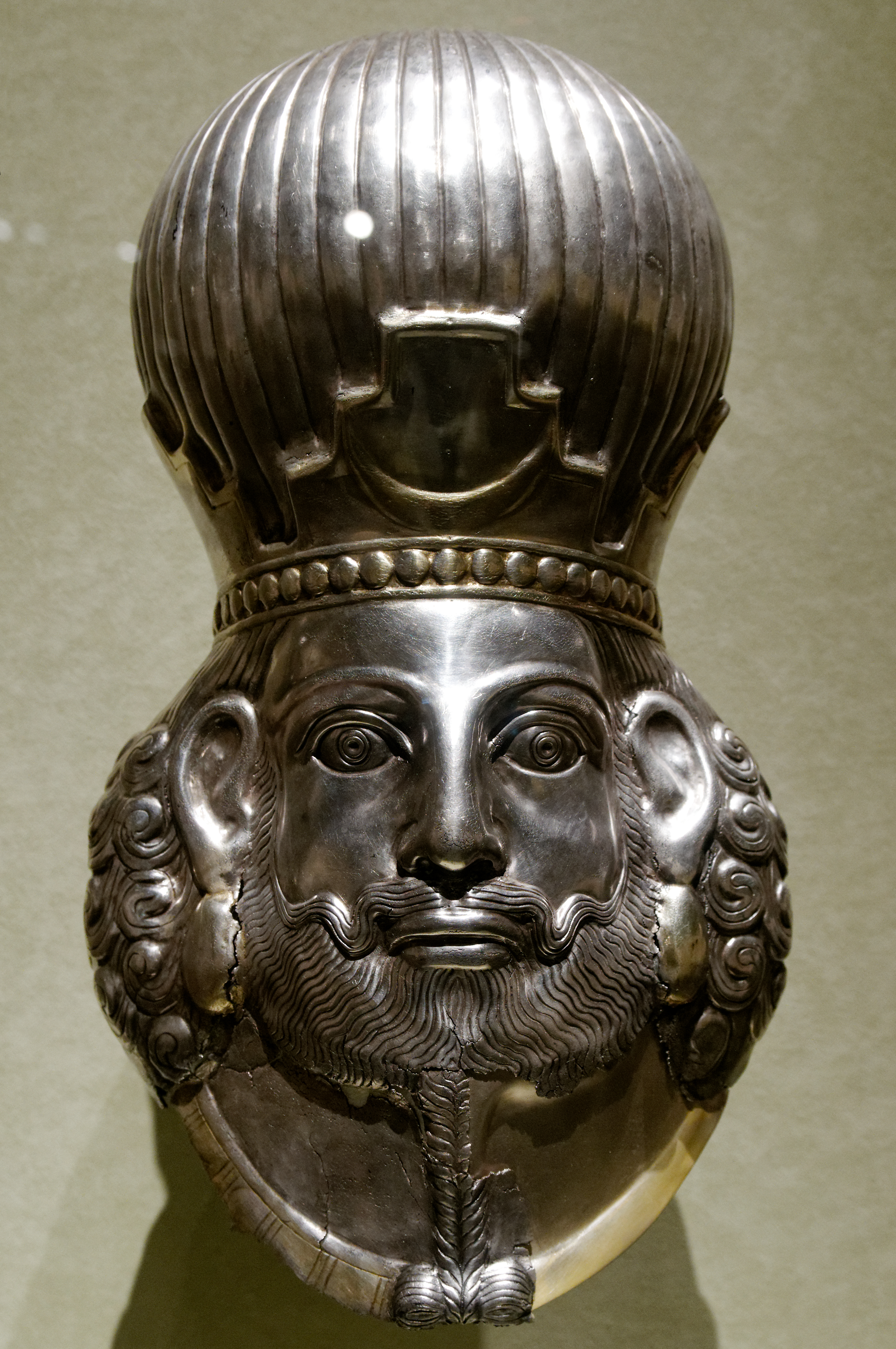 Bust of the Sasanian king Shapur II, Sasanian artwork.